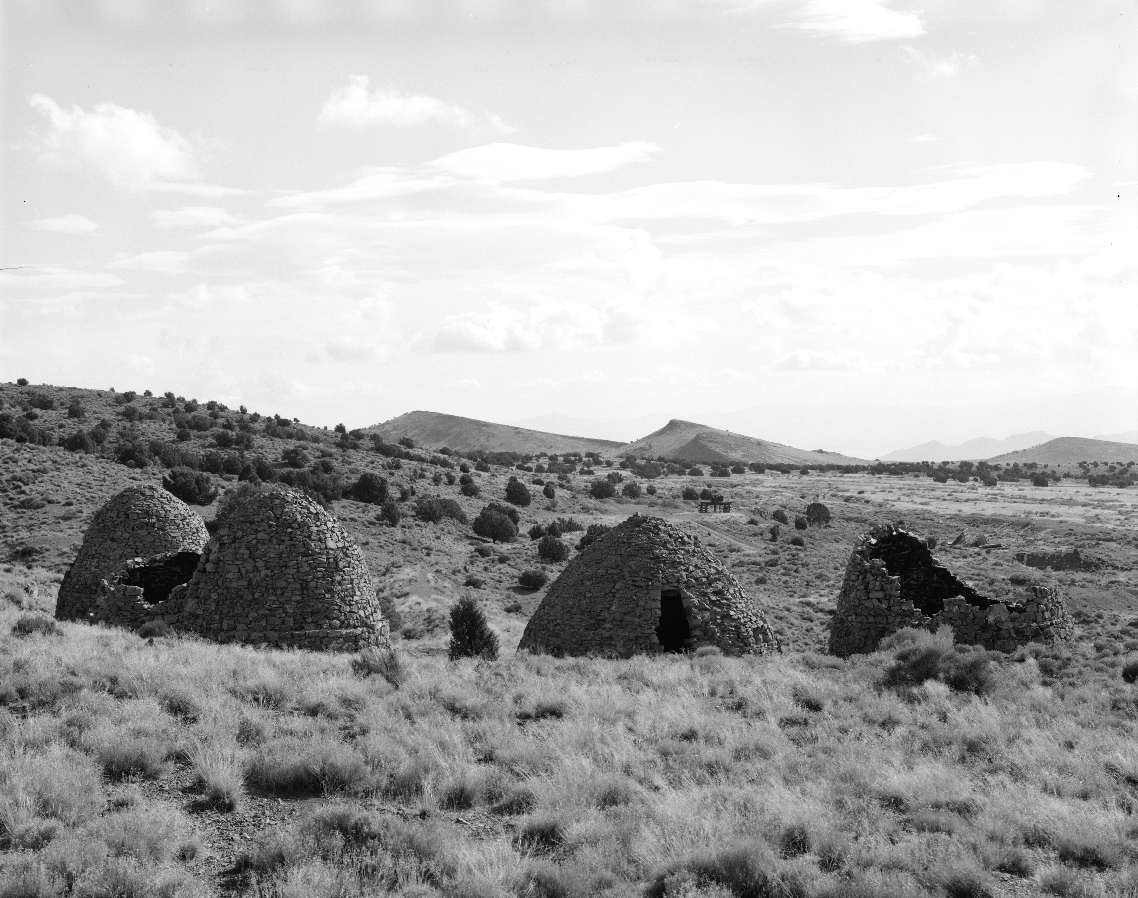 View from the northwest of the Frisco Charcoal Kilns, located along State Route 21 near Milford in Beaver County, Utah, United States. Built in 1877, the kilns are listed on the National Register of Historic Places.